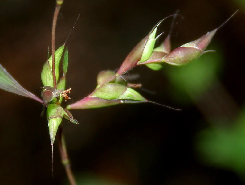 Mauritian grass Apluda mutica at Ananthagiri Hills, in Rangareddy district of Andhra Pradesh, India.